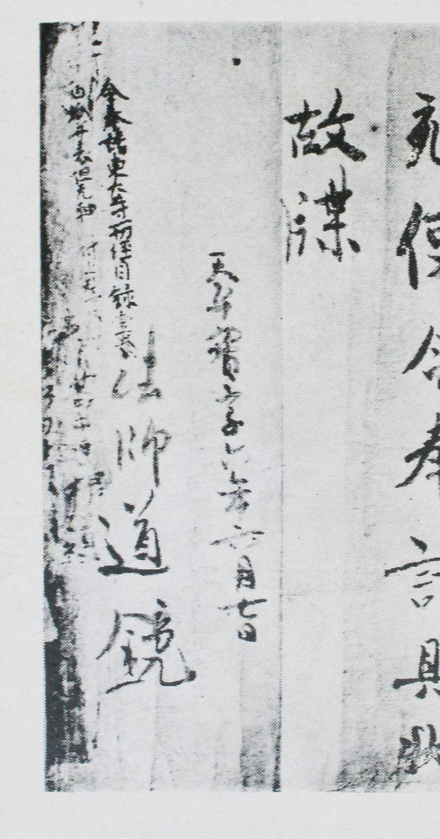 Last Part of Manuscript by Dokyo（ACE700?-ACE772） with his Signature. Ink on paper, ACE763, Shosoin Collection, Imperial Agency of Japan, Nara, Japan